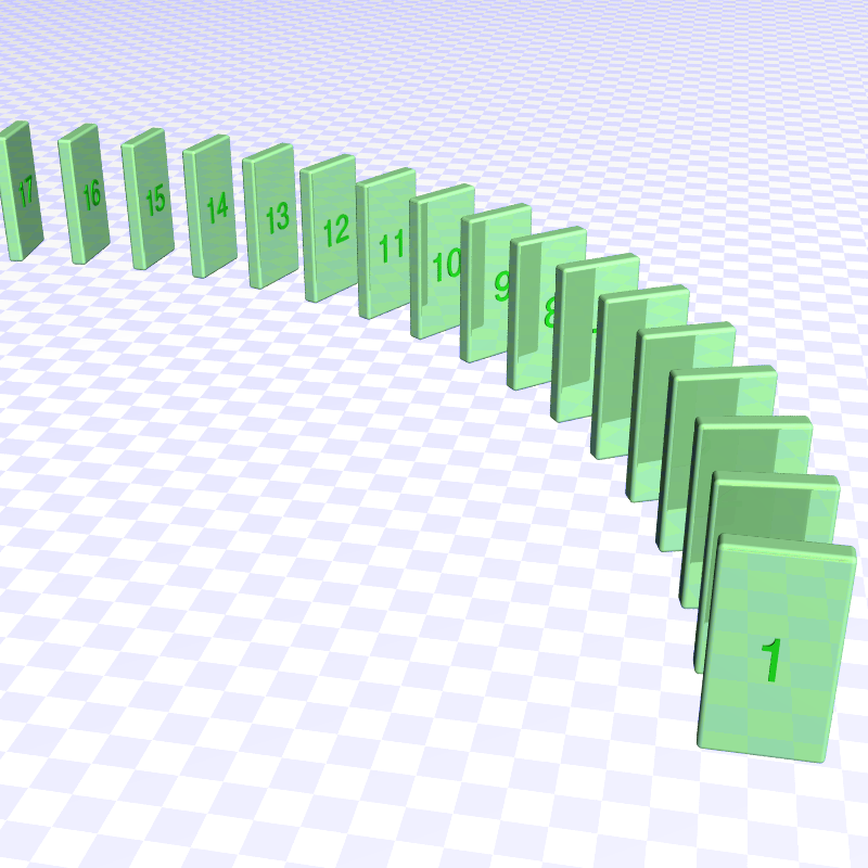 Domino bricks